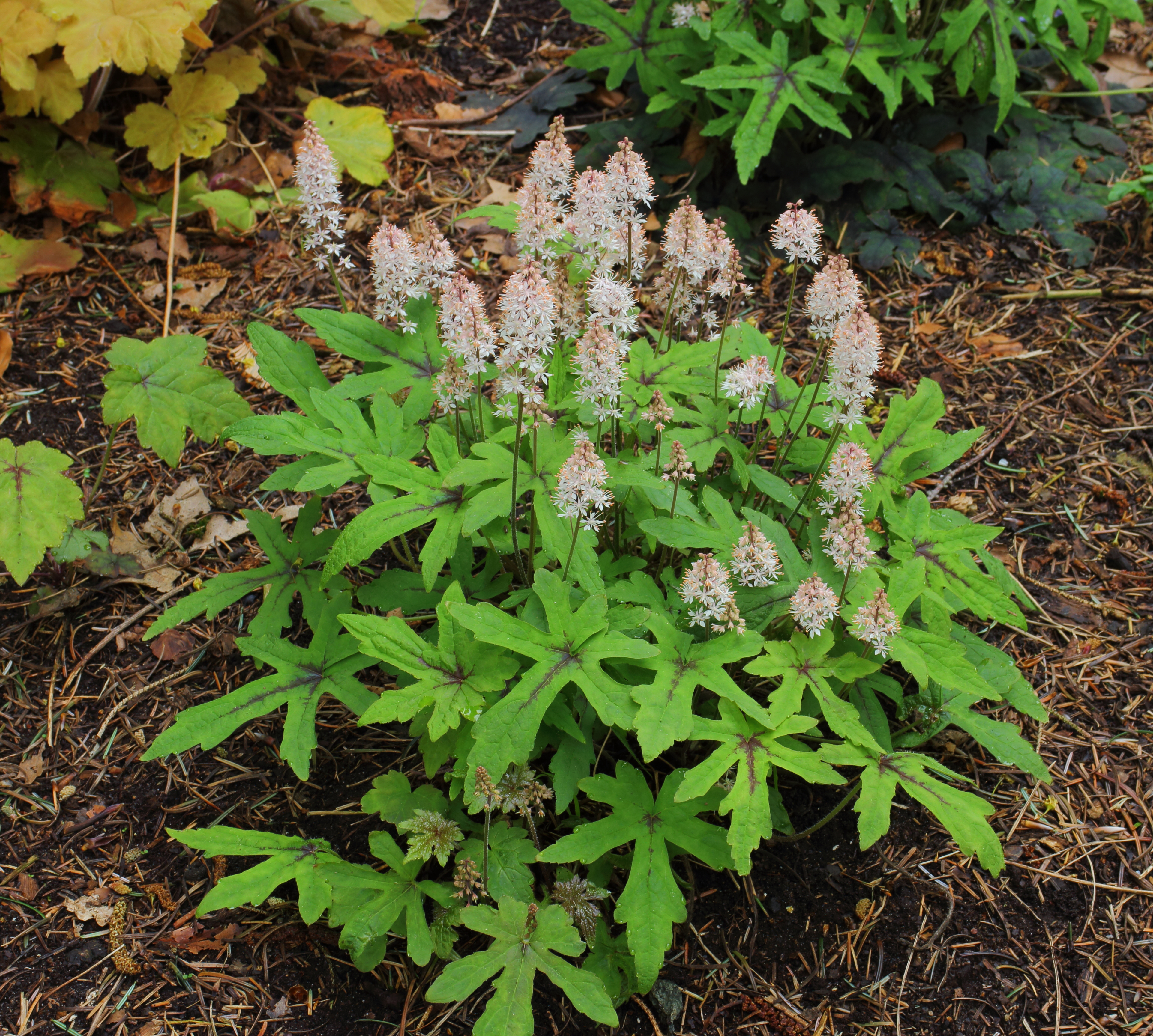 Tiarella 'Ninja'. Beautiful plant in semi-shade.